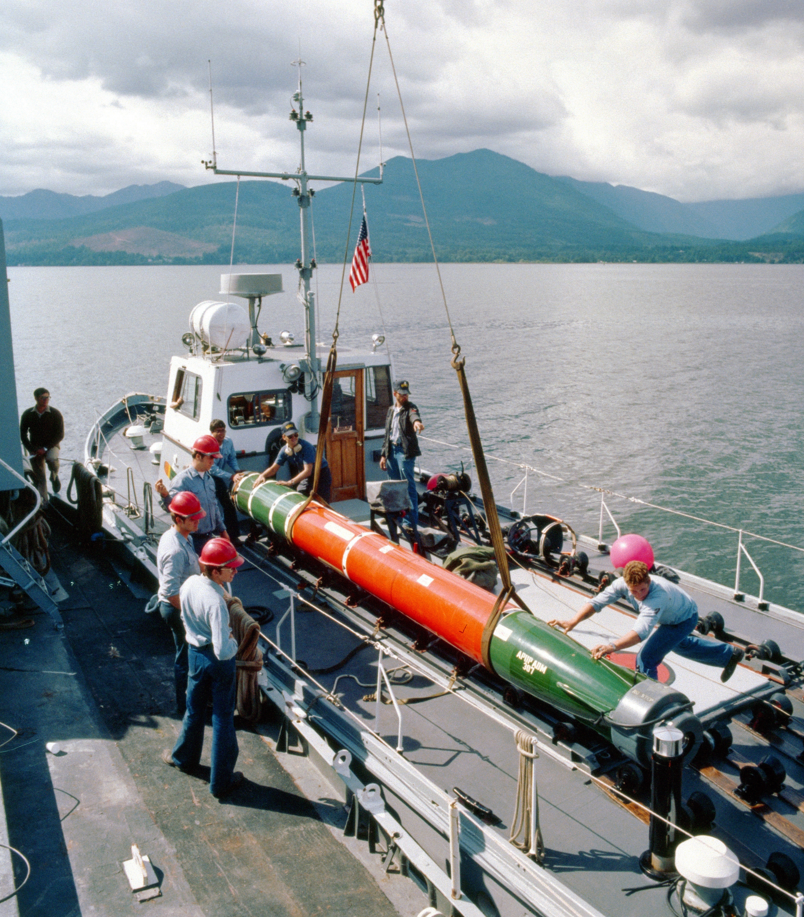 U.S. Navy crewmen aboard a Mk 2 72-foot torpedo retriever boat hoist a Mk 48 advanced capabilities torpedo from the deck after retrieving it from the water.